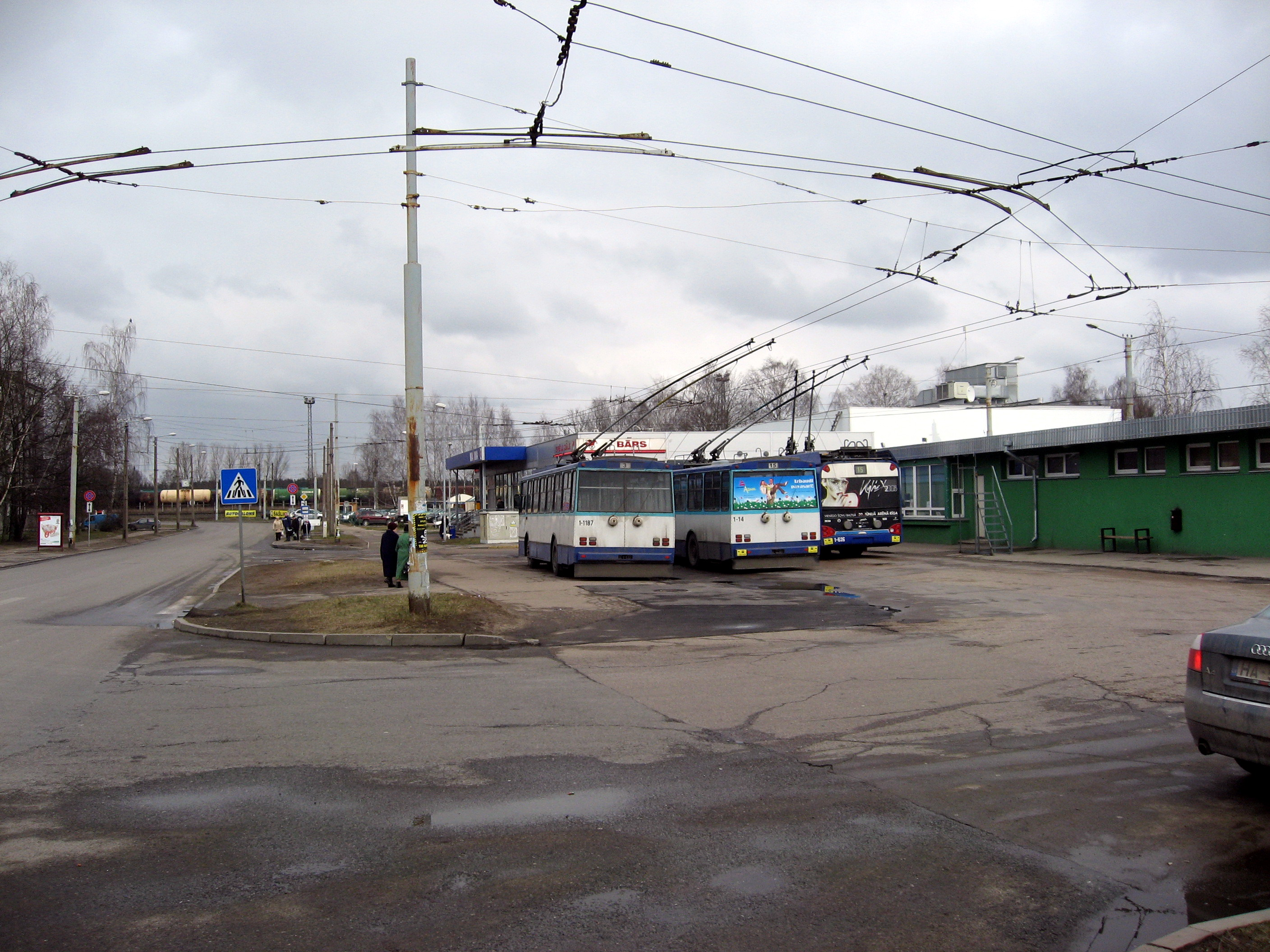 From left to right: Škoda 14Tr02/6 trolleybus (year built 1988), Škoda 15Tr03/6 trolleybus (1990), Ganz-Solaris Trollino 18 trolleybus (2004) in Riga.